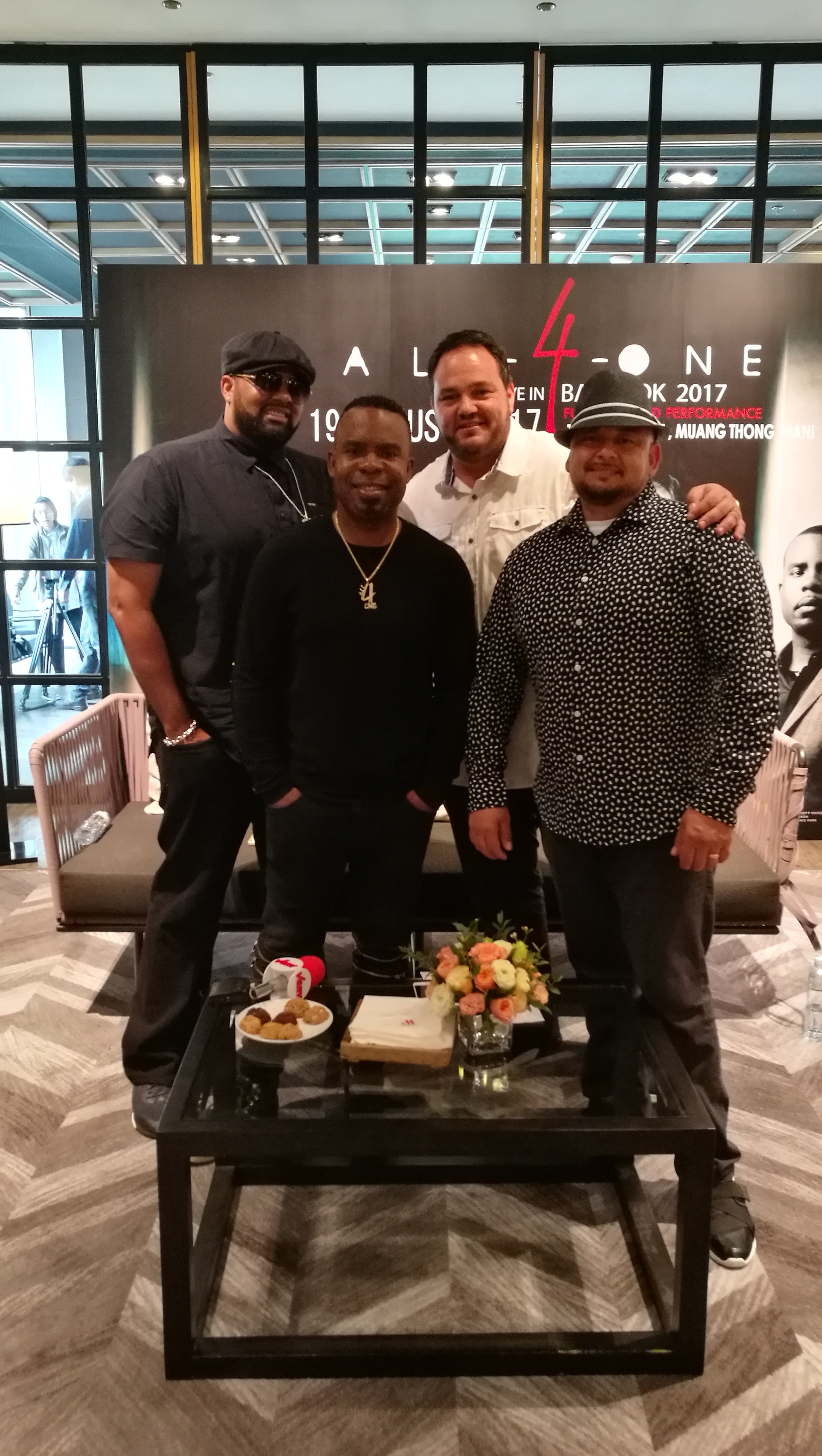 All-4-One in Bangkok.